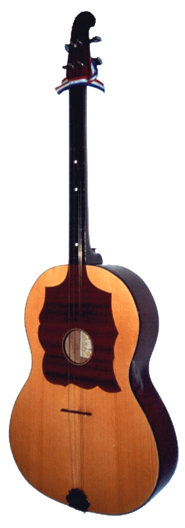 Celo, a Croatian instrument used in tamburica ensembles.